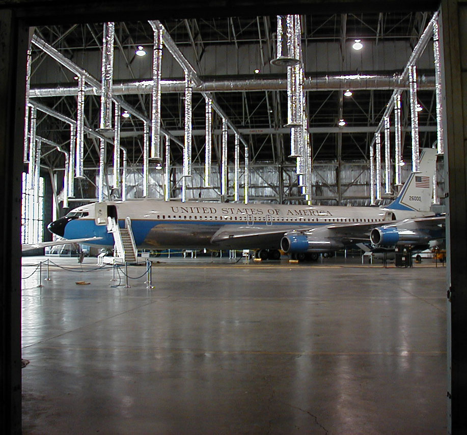 VC-137C SAM 26000 in June, 2003 on display in the Presidential Planes hangar at the National Museum of the United States Air Force at Wright-Patterson AFB before being repainted in presidential colors.